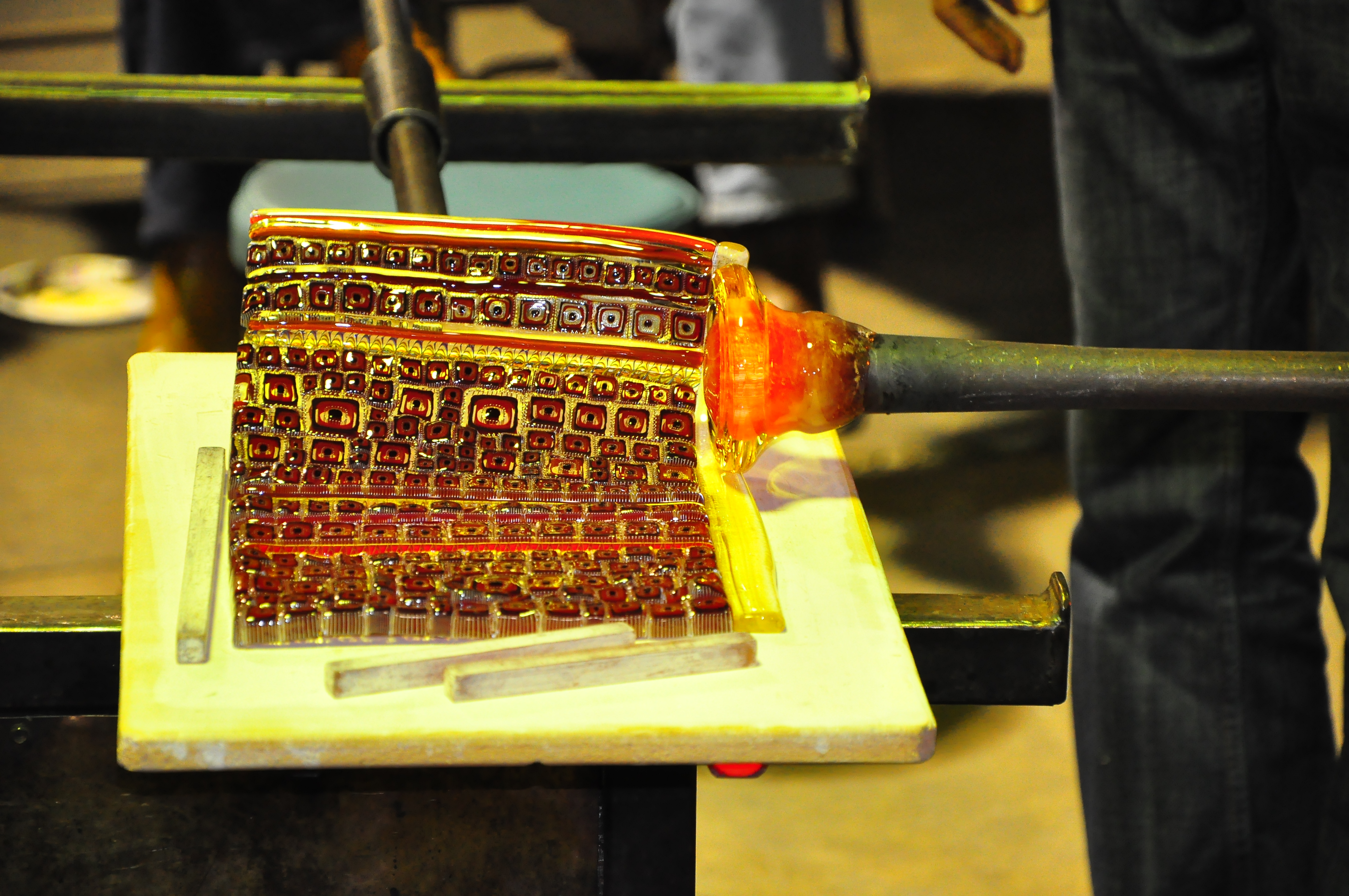 Example of how detailed murrine patterns are incorporated into blown glass. Artist demonstrating is David Patchen.